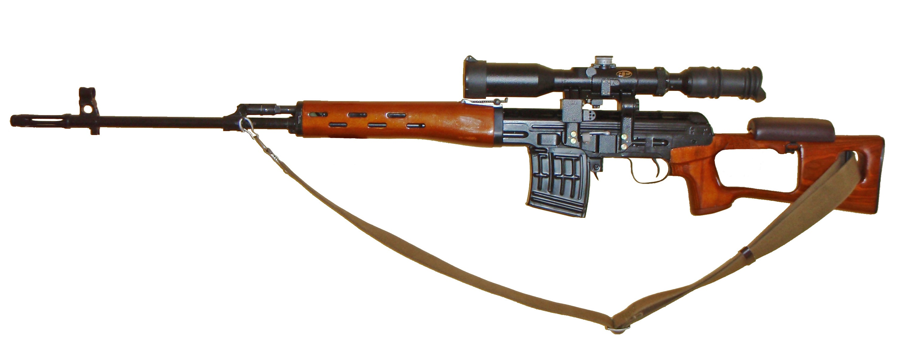 SVD Dragunov rifle featuring a wooden handguard/gas tube cover and skeletonized stock used before the change to (black) synthetic furniture.